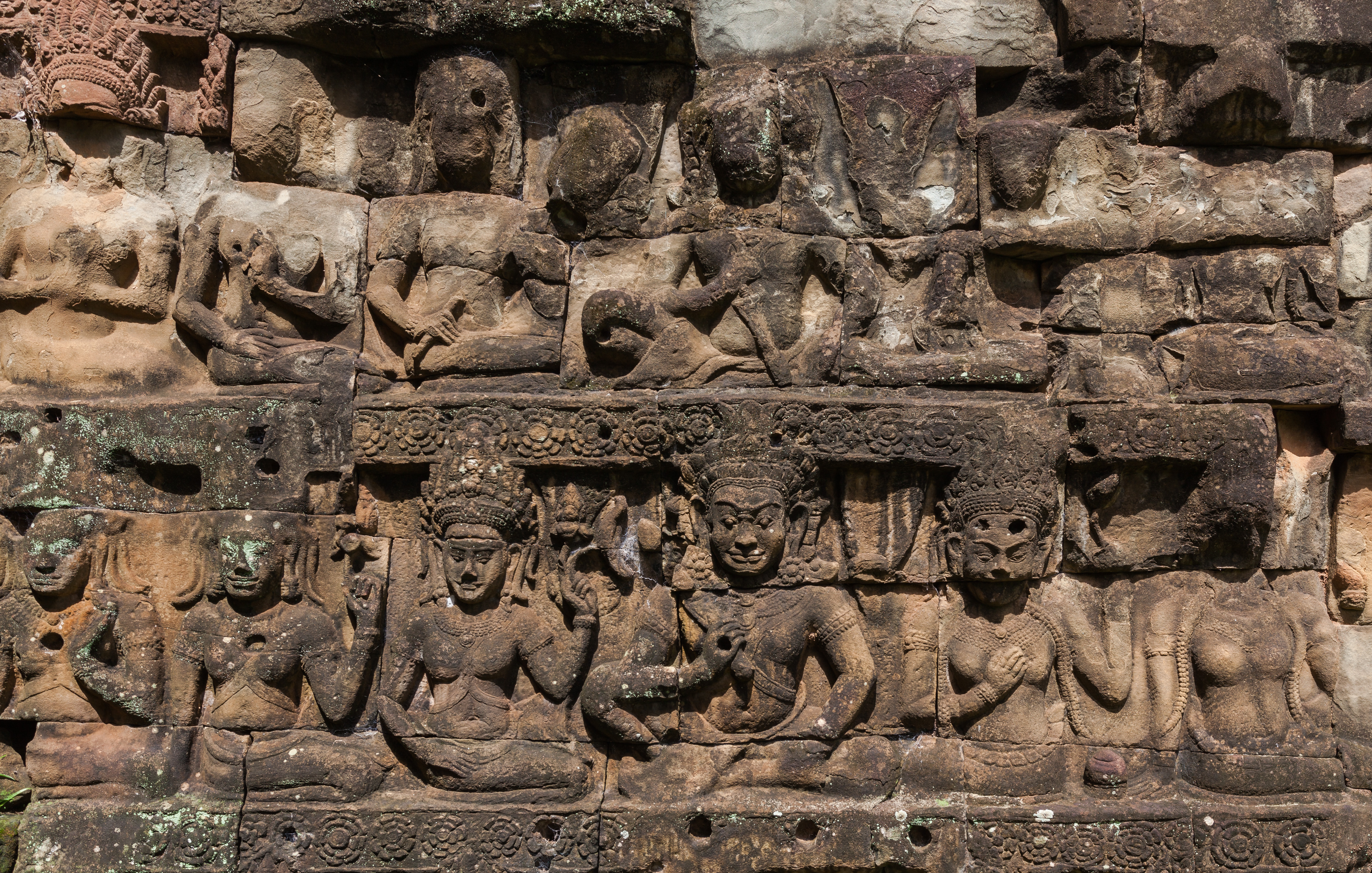 Terrace of the Elephants, Angkor Thom, Cambodia